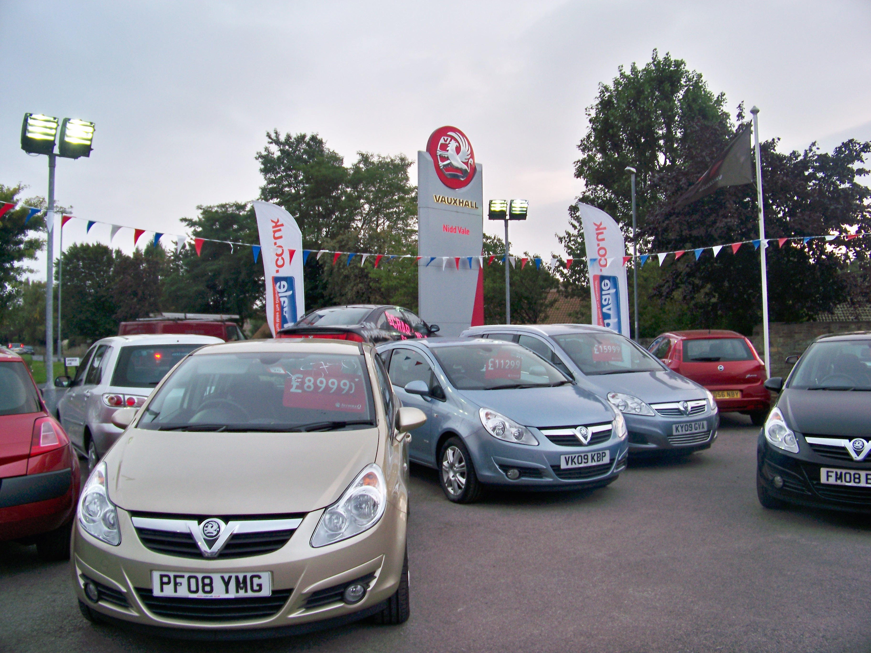 Vauxhall Vehicles on a forecourt (Niddvale Motors, Deighton Road, Wetherby, West Yorkshire). Note also the Fiat Punto and the Renault Megane which can be seen in part. An old Mazda is being used to promote the UK government scrappage scheme available around 2009. Taken on the Evening of Saturday the 19th September 2009.